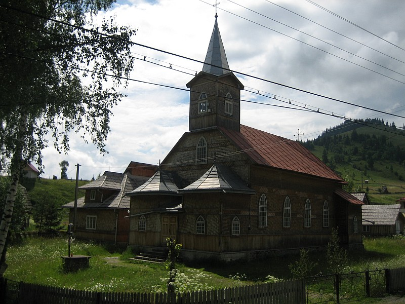 picture of the kath. church in kirlibaba